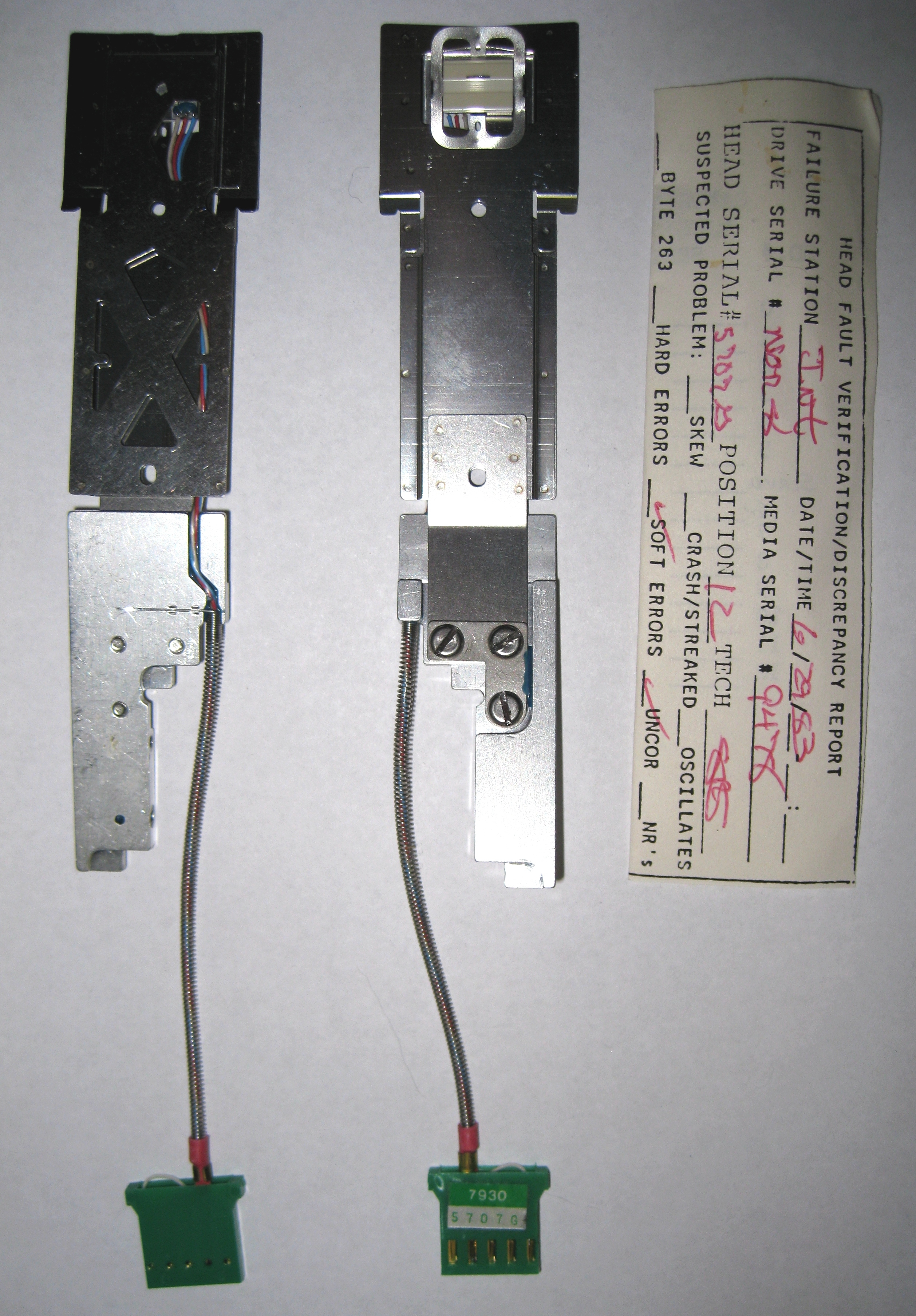 Hewlett-Packard HP7933/35 disc drive heads and factory reject tag dated 6-29-1983